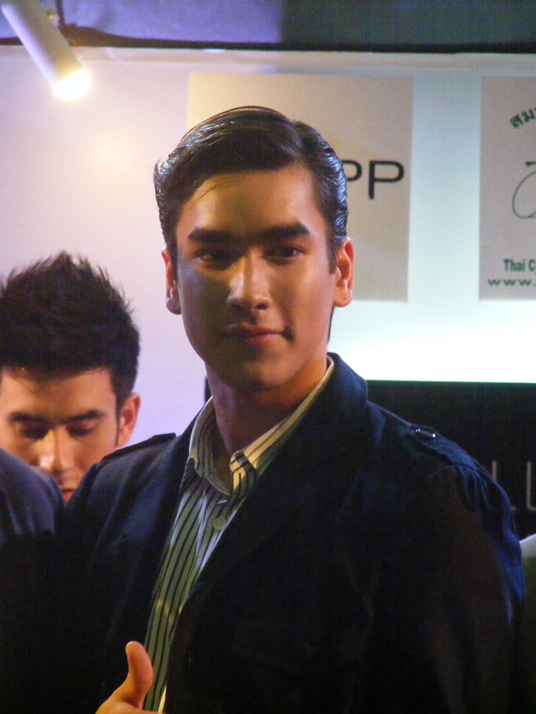 Barry Nadech Kugimiya